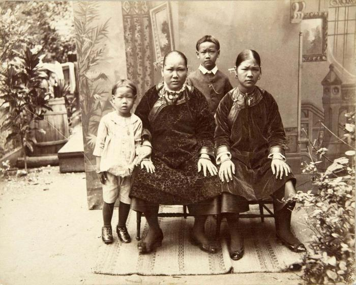 Photographic portrait of a Chinese immigrant family in Suriname.